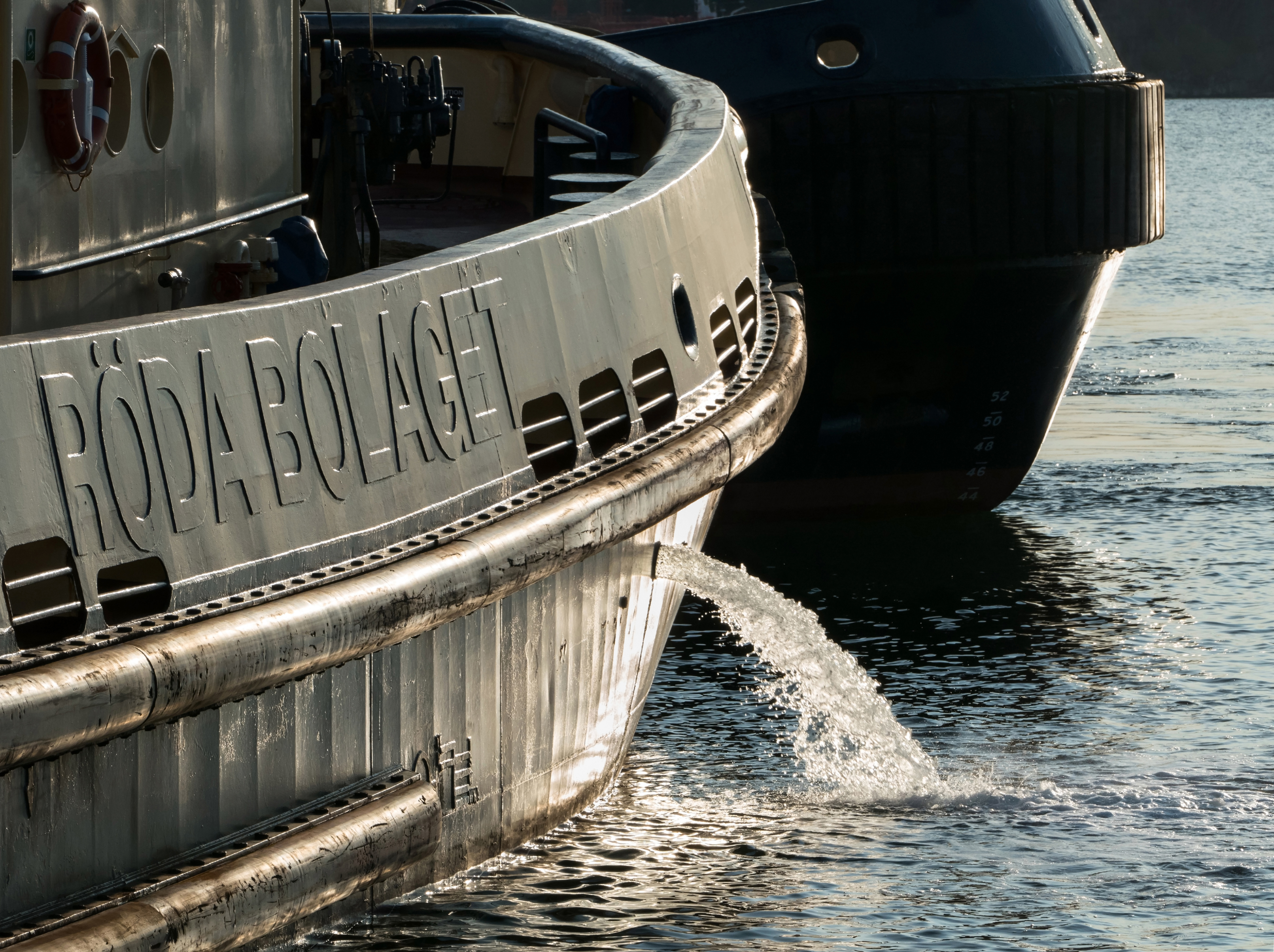 Tugboat Boss (1995) in Brofjorden at Lahälla, discharging ballast water before departing. The tugboats are stationed across the fjord from Preemraff oil refinery to assist tankers going to and from Brofjorden Port, Sweden's largest oil port. The embossed name "RÖDA BOLAGET" (The Red Company) on the side of the boat was the former name of the company doing most of the towing and salvaging operations in Sweden before it was reconstructed in 1984. The tugboats are now painted in the new company's colors but the raised letters can still be seen in certain lights.